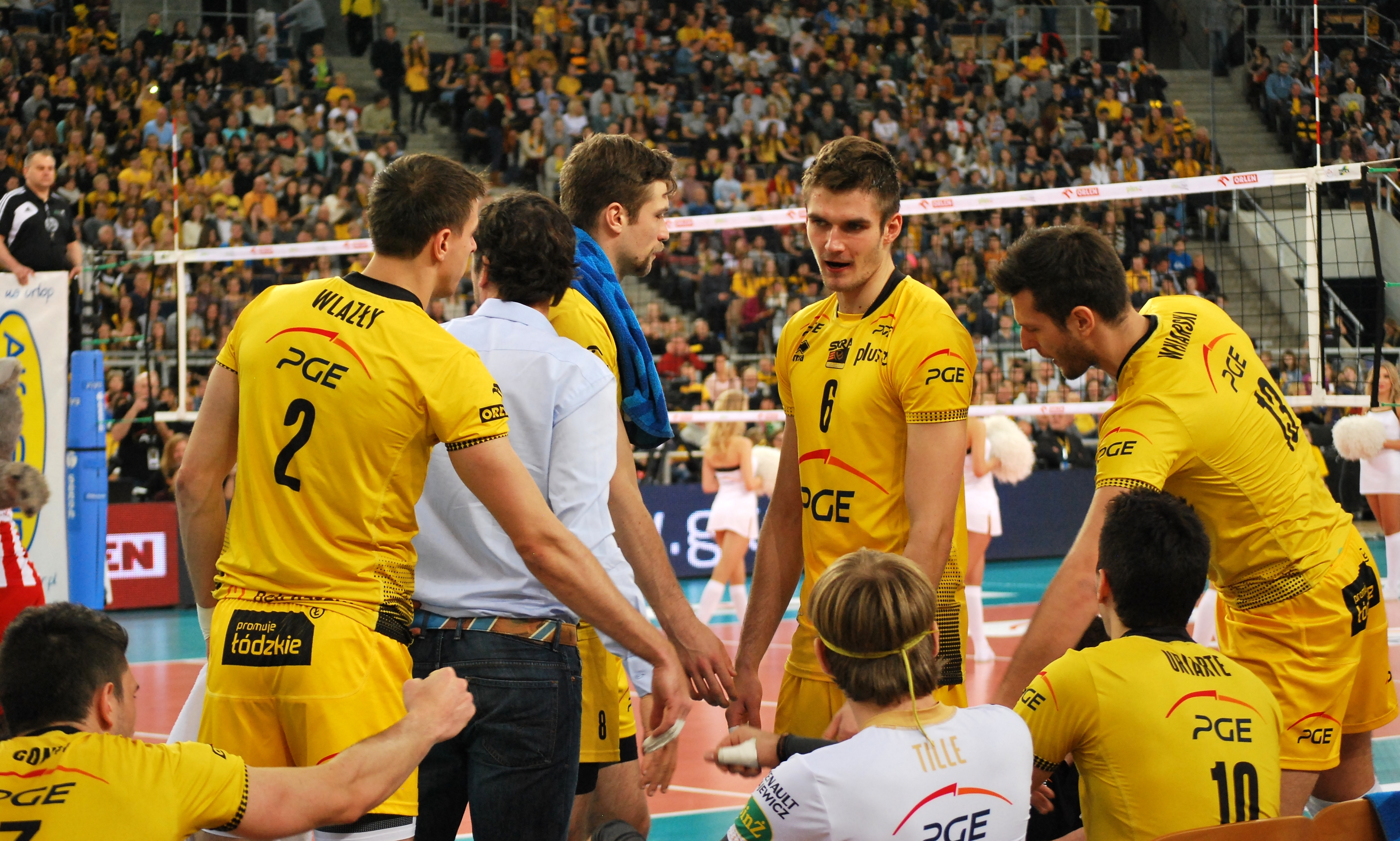 Skra Bełchatów first six + libero and coach 2014